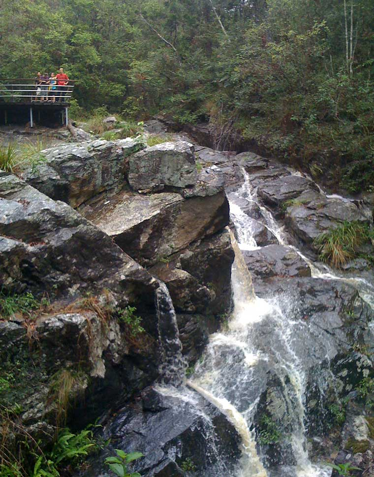 Simpson Falls on a rainy day, 27 December 2009